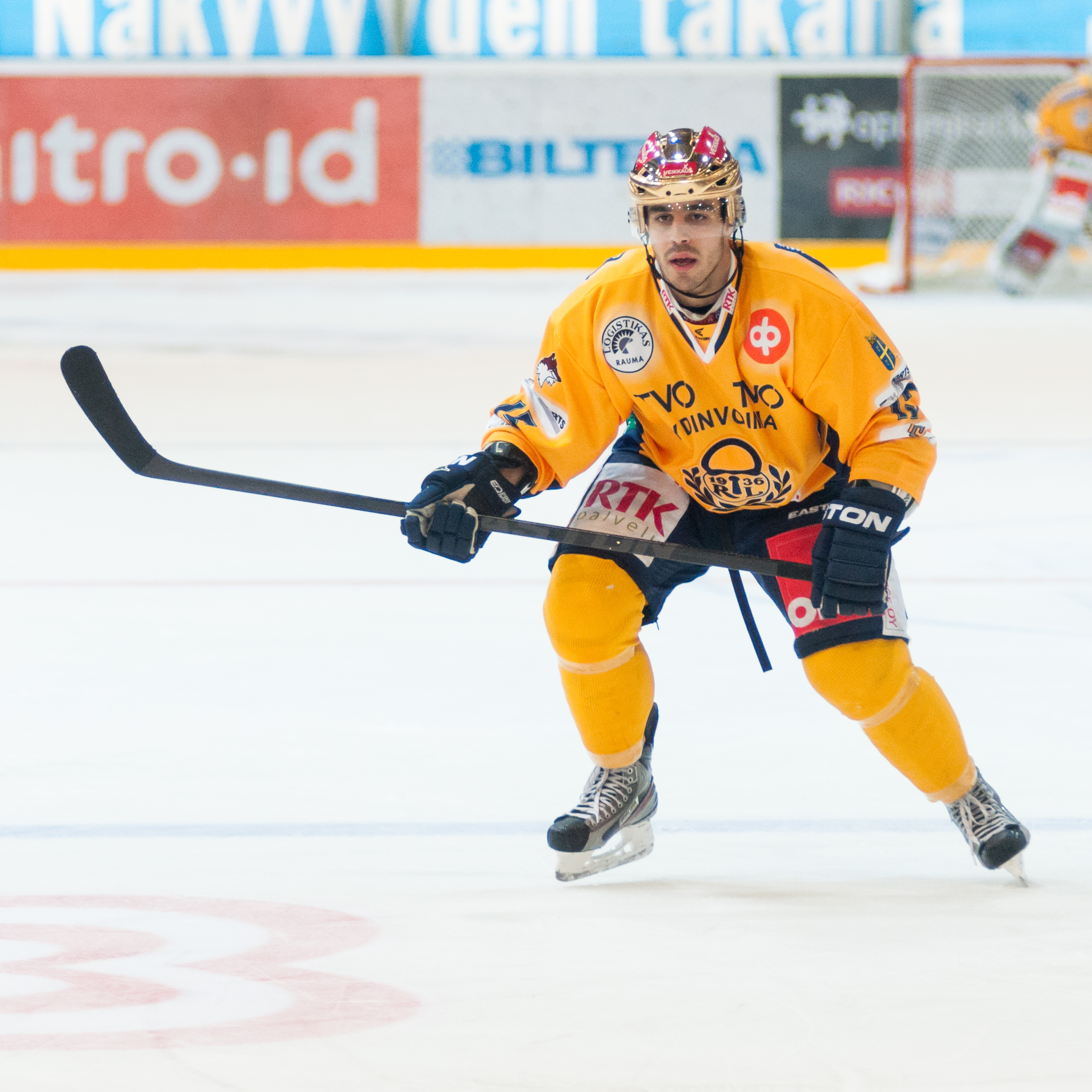 Canadian ice hockey forward Justin Azevedo playing for Rauman Lukko against SaiPa Lappeenranta in Lappeenranta, Finland.